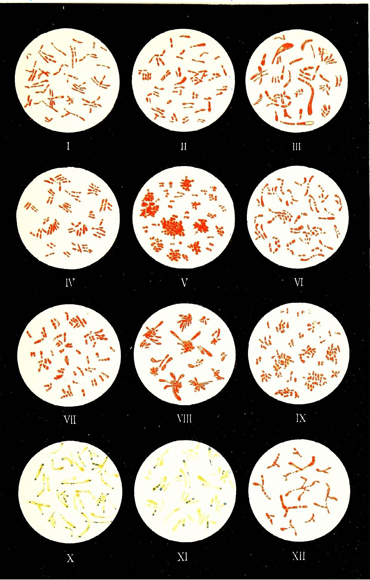 Title: Atlas and principles of bacteriology and text-book of special bacteriologic diagnosis Year: 1901 (1900s) Authors: Lehmann, K. B. (Karl Bernhard), 1858-1940; Neumann, Rudolf Otto, 1868- joint author; Weaver, George H. (George Howitt), b. 1866 ed Subjects: Bacteriology Publisher: Philadelphia and London, W. B. Saunders & Company Text Appearing Before Image: Tab. 60. Text Appearing After Image: '